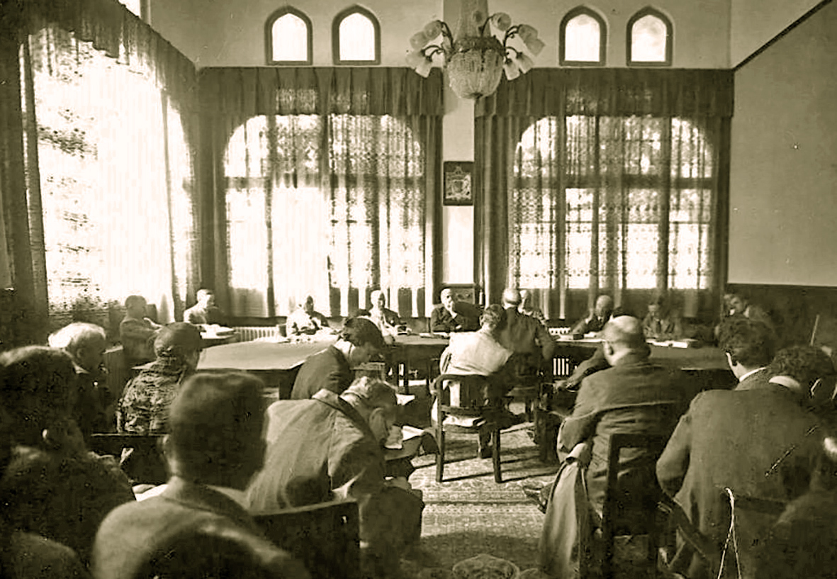 The Peel Commission listens to testimony from Chaim Weizmann, President of the Jewish Agency for Eretz Yisrael, in Jerusalem.